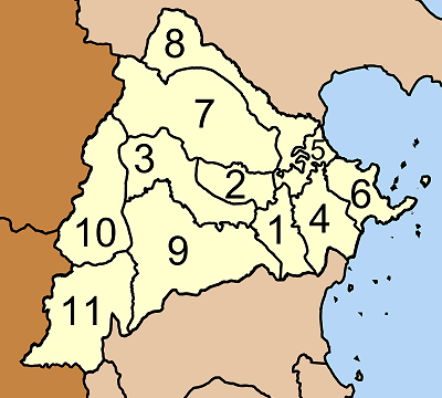 Map of Sawi district, Chumphon province, with the communes (tambon) numbered Na Pho (นาโพธิ์) Sawi (สวี) Thung Raya (ทุ่งระยะ) Tha Hin (ท่าหิน) Pak Phraek (ปากแพรก) Dan Sawi (ด่านสวี) Khron (ครน) Wisai Tai (วิสัยใต้) Na Sak (นาสัก) Khao Thalu (เขาทะลุ) Khao Khai (เขาค่าย)